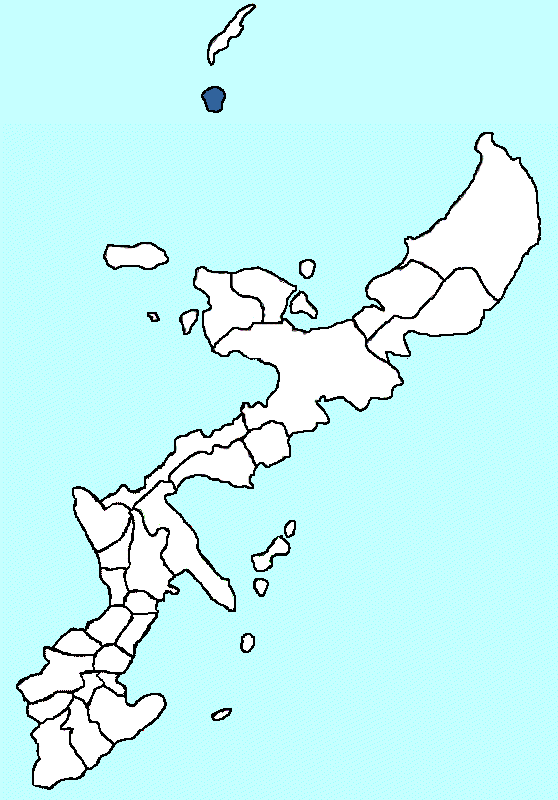 The location of Izena village in Okinawa.